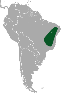 Agricola's Gracile Opossum (Cryptonanus agricolai) range, with national borders added IUCN: Cryptonanus agricolai (Moojen, 1943) (old web site) (Data Deficient)